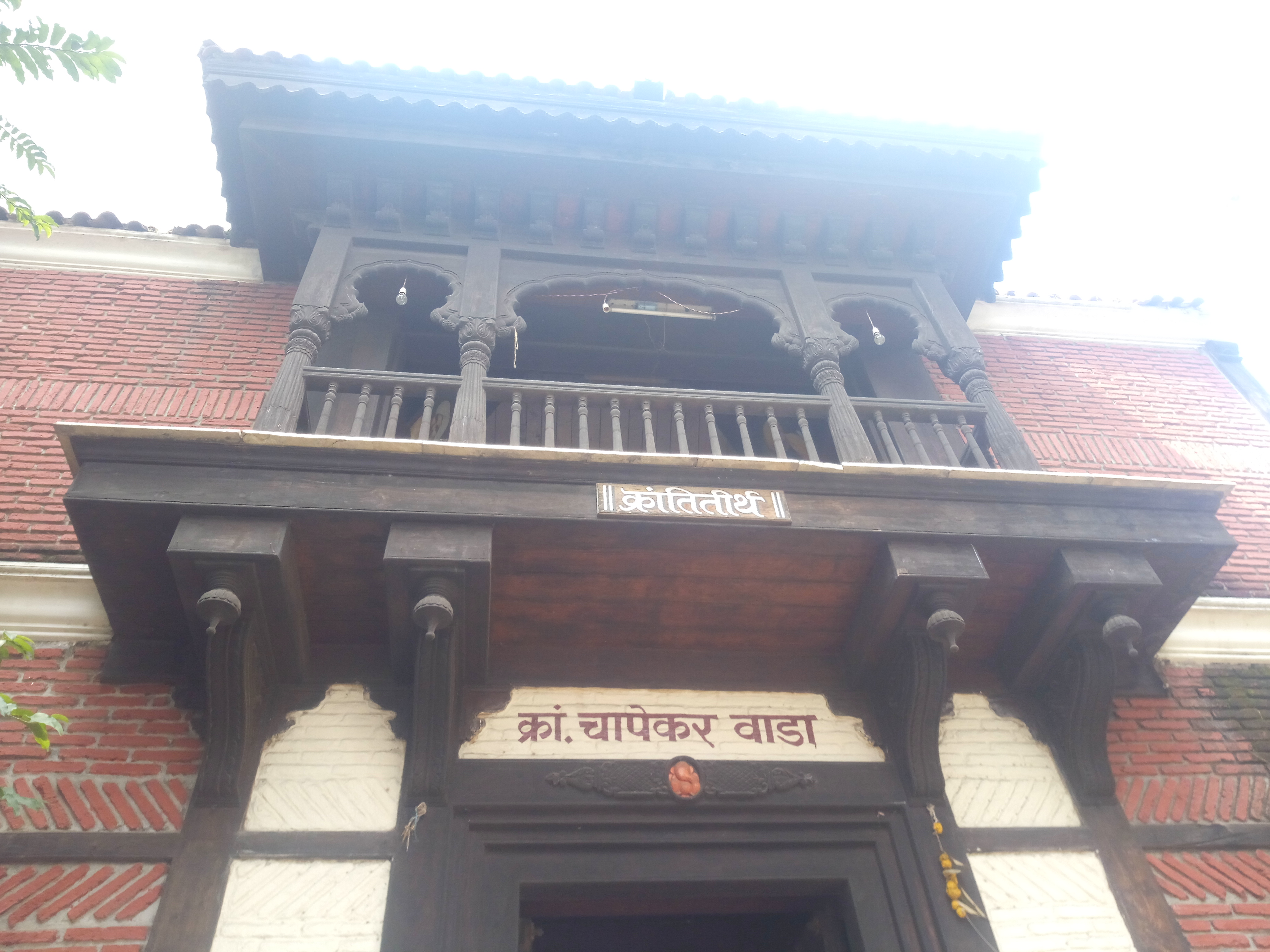 Residence of Chafekar brothers at Chinchwad, Pune